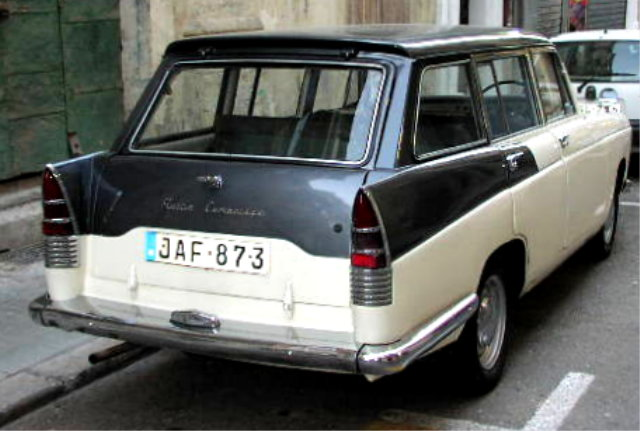 Austin A55 Cambridge Mark II Estate